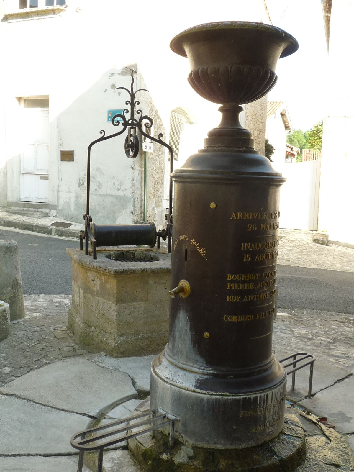 fountain of the market of Villebois-Lavalette, Charente, SW France